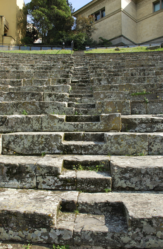 Fiesole archaeological site, Florence, Italy. Theater.